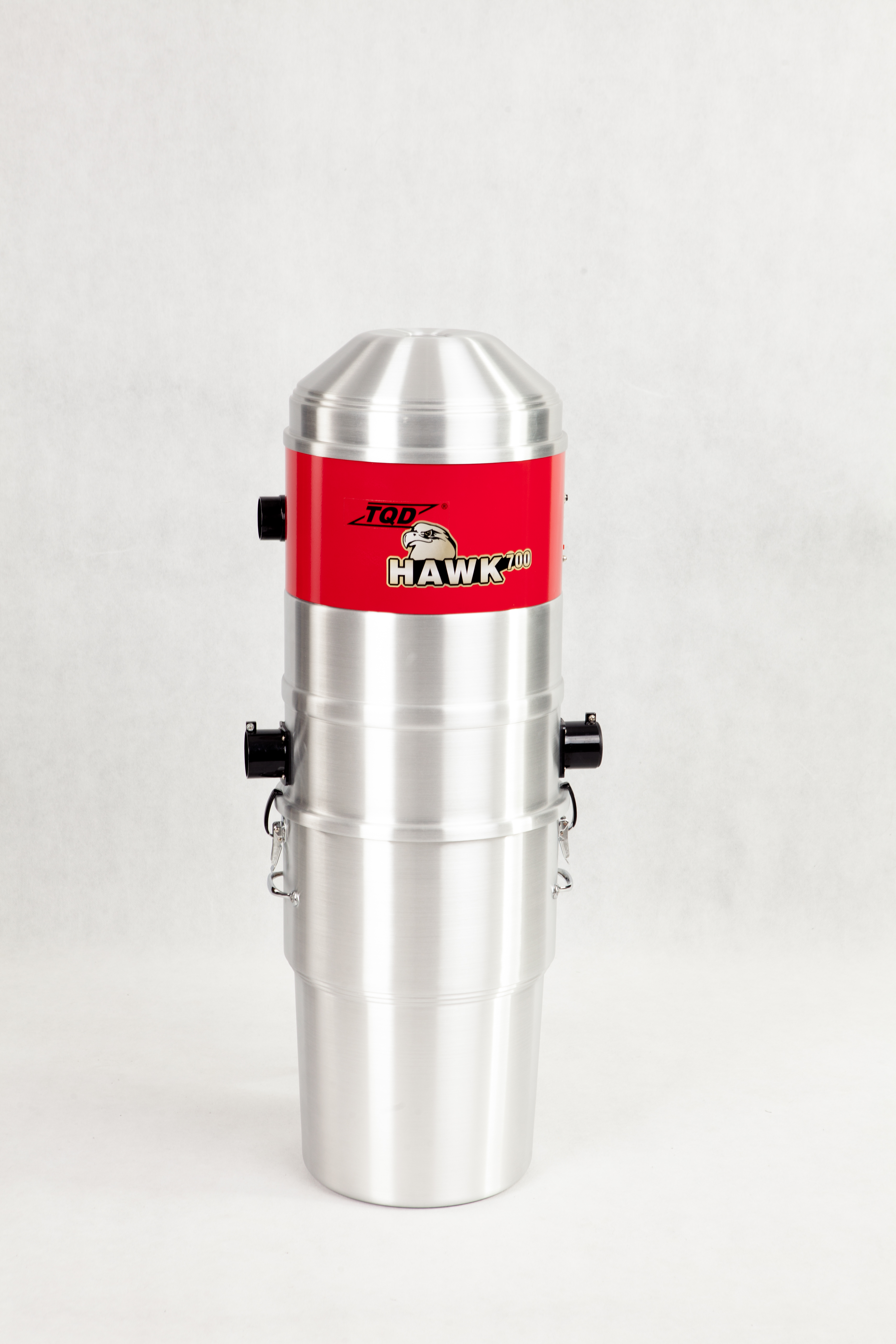 One of the newest central vacuum cleaner from the 21st century